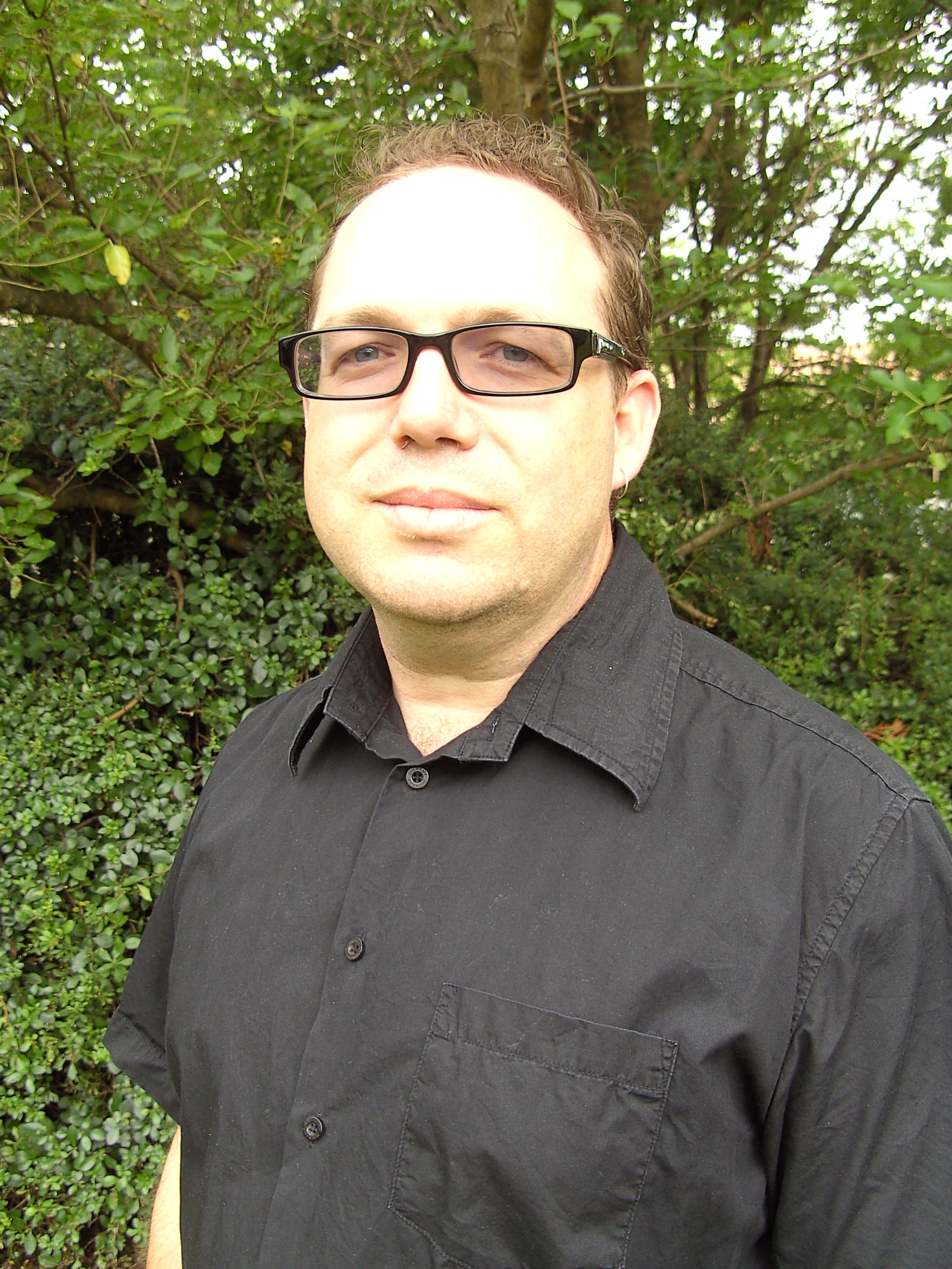 Stephen Hatfield Dodds. At his insistence, this photograph was taken against a background of green trees.